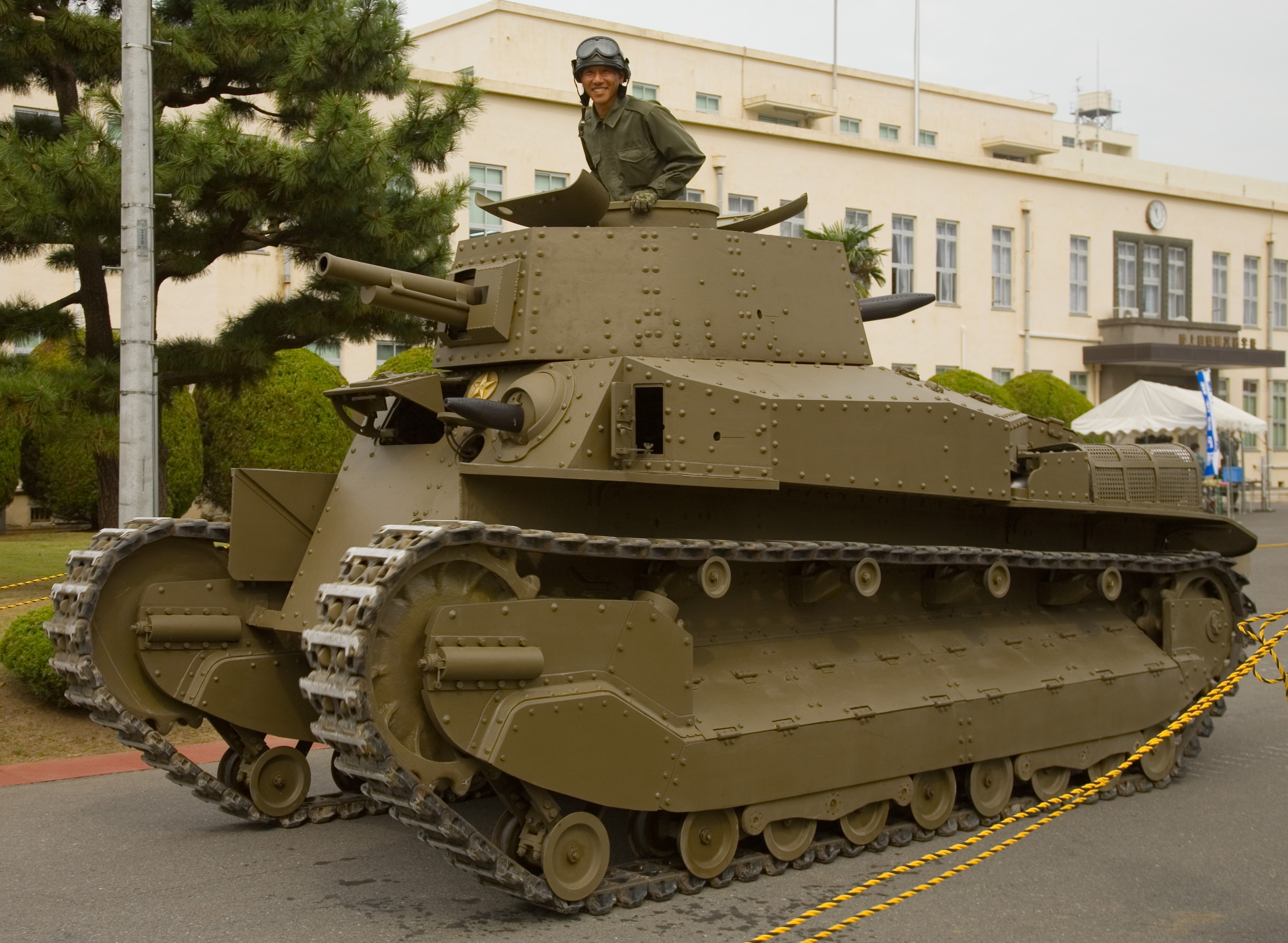 A restored and running Type 89 Yi-Go tank at Tsuchira tank museum open day. The tank was actually running at jogging pace along the road at the point the photograph was taken.